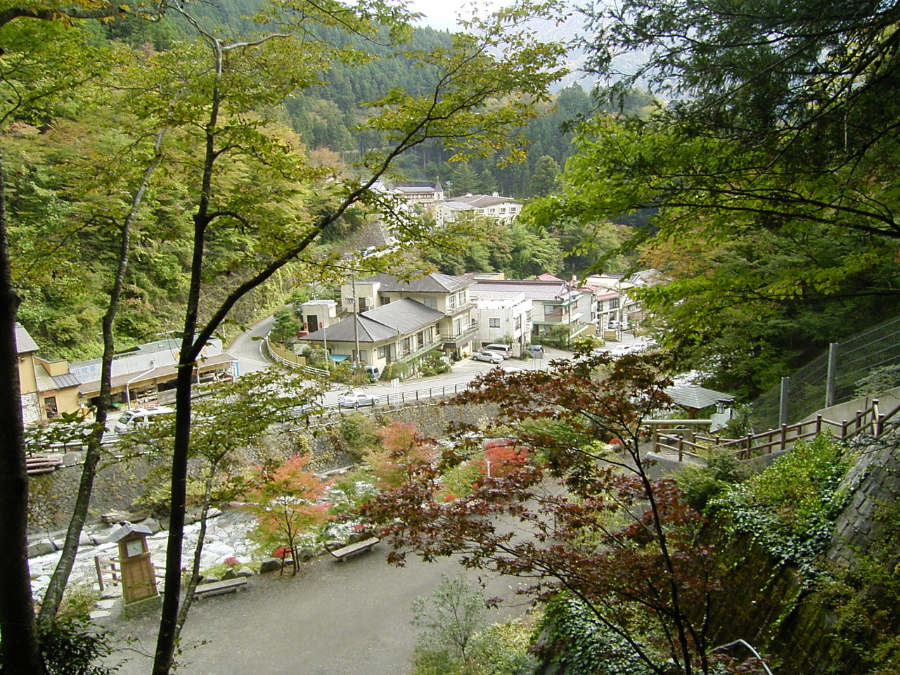 Umegashima hot springs Shizuoka Japan